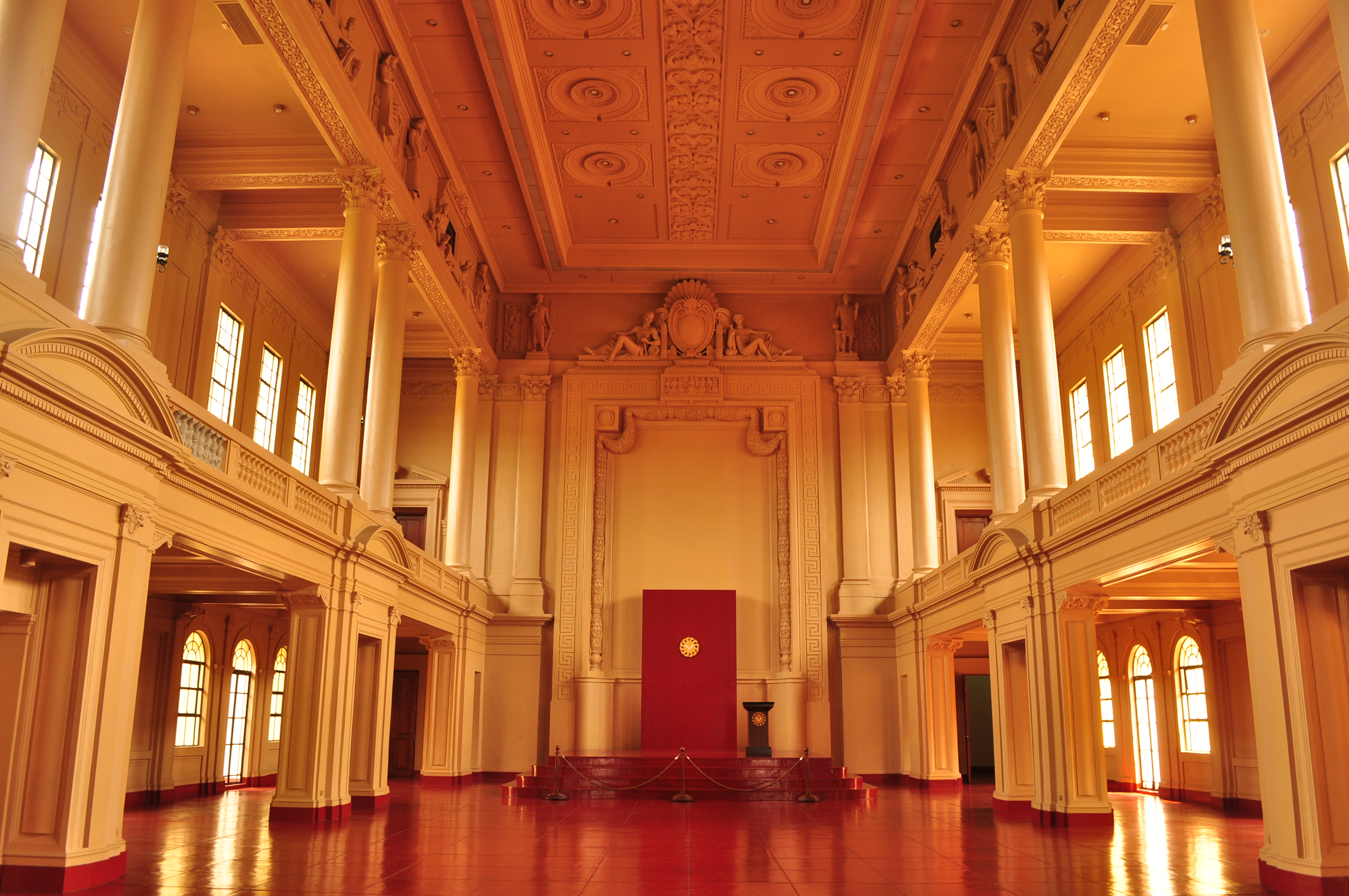 Senate Hall of the National Museum of the Philippines, formerly the Legislative Building